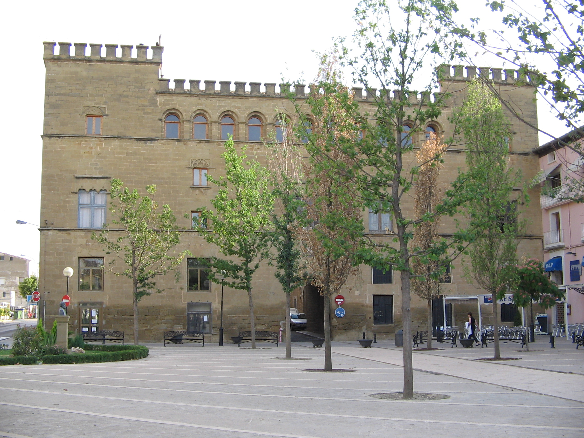 Palace of Ayerbe article at Spanish Wikipedia (in Spanish)